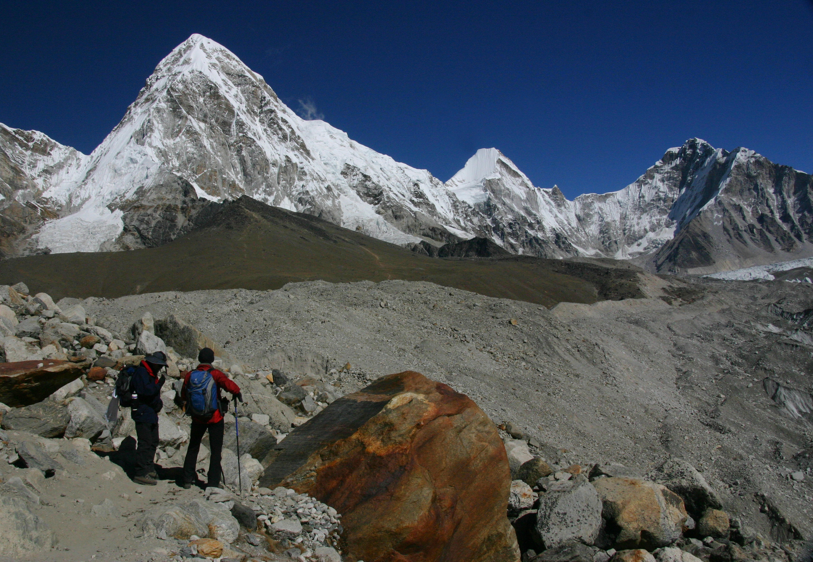 From Lobuche to Gorak Shep